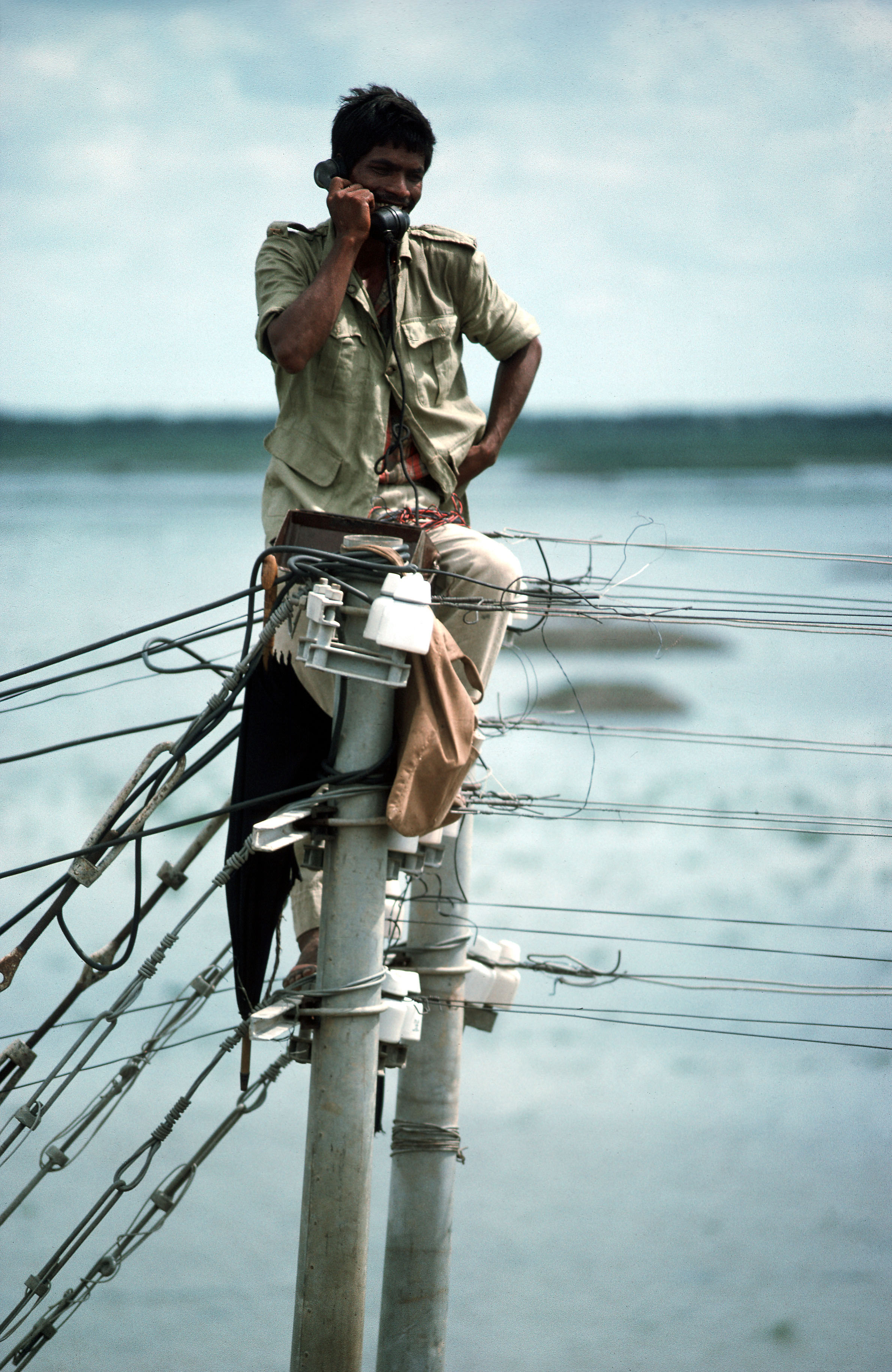 Telephone technician checking lines. Savar region, north of Dhaka. Bangladesh 2004. Photo: Heldur Netocny